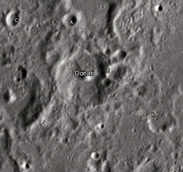 Donati lunar crater as seen from Earth with satellite craters labeled